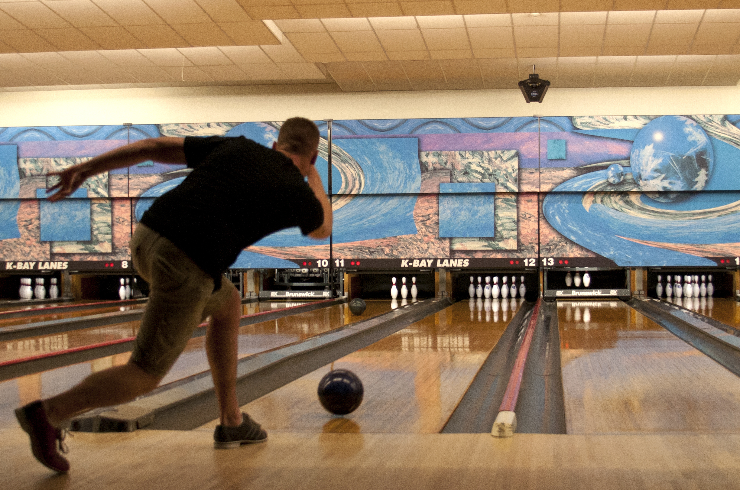 Lance Cpl. Victor Danish, flute player with U.S. Marine Corps Forces, Pacific Band, bowls a strike April 1, at K-Bay Lanes aboard Marine Corps Base Hawaii.